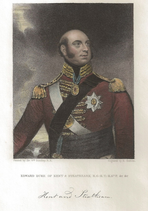 Edward Scriven engraving of Prince Edward, Duke of Kent and Strathern (1834) after W. Beechey's portrait. Hand-coloured. 11x8,5cm.